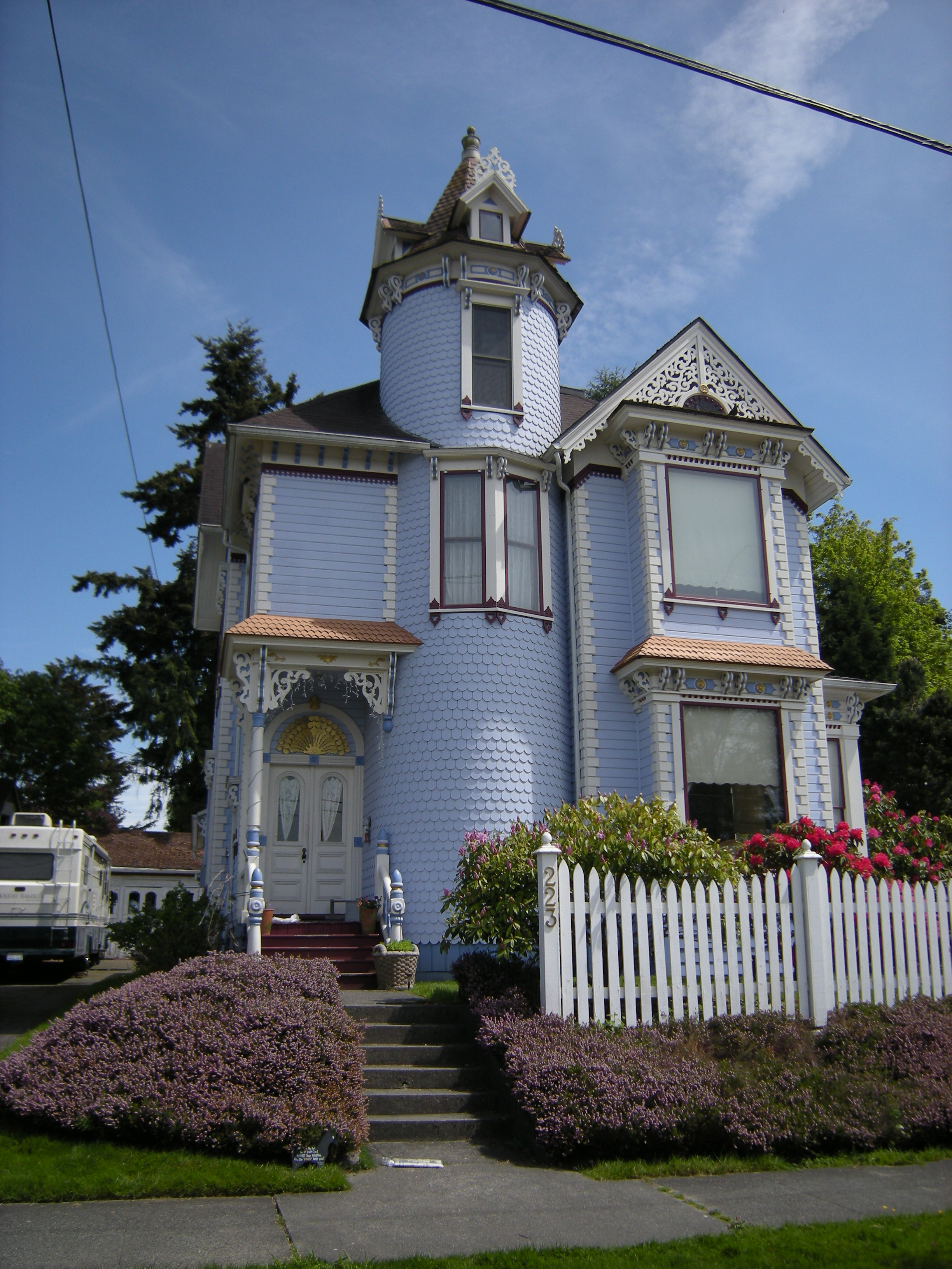 Gingerbread House, 223 Avenue A, Snohomish, Washington, USA. Built in 1887.